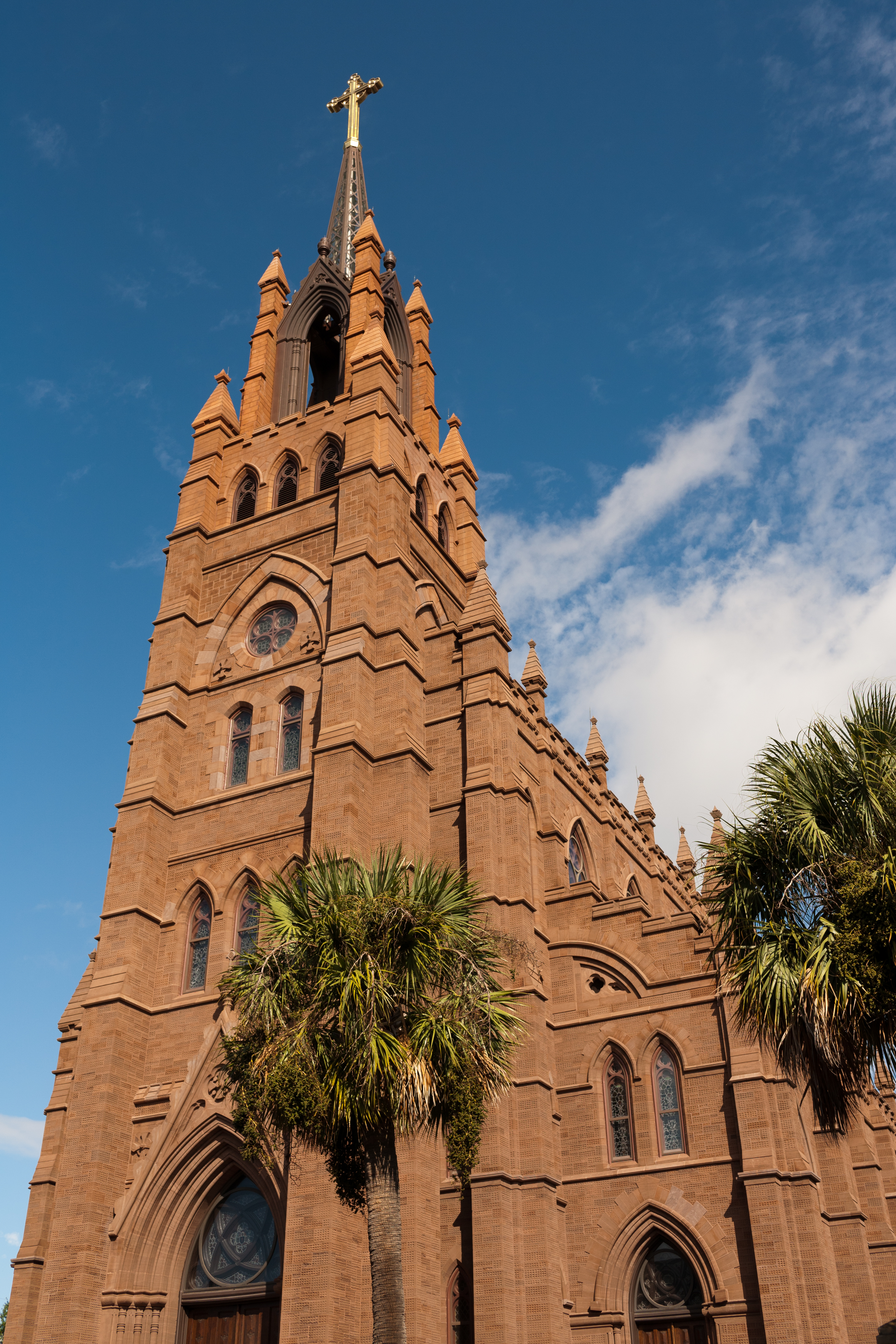 Cathedral of St. John the Baptist, Charleston, SC. October 2011.